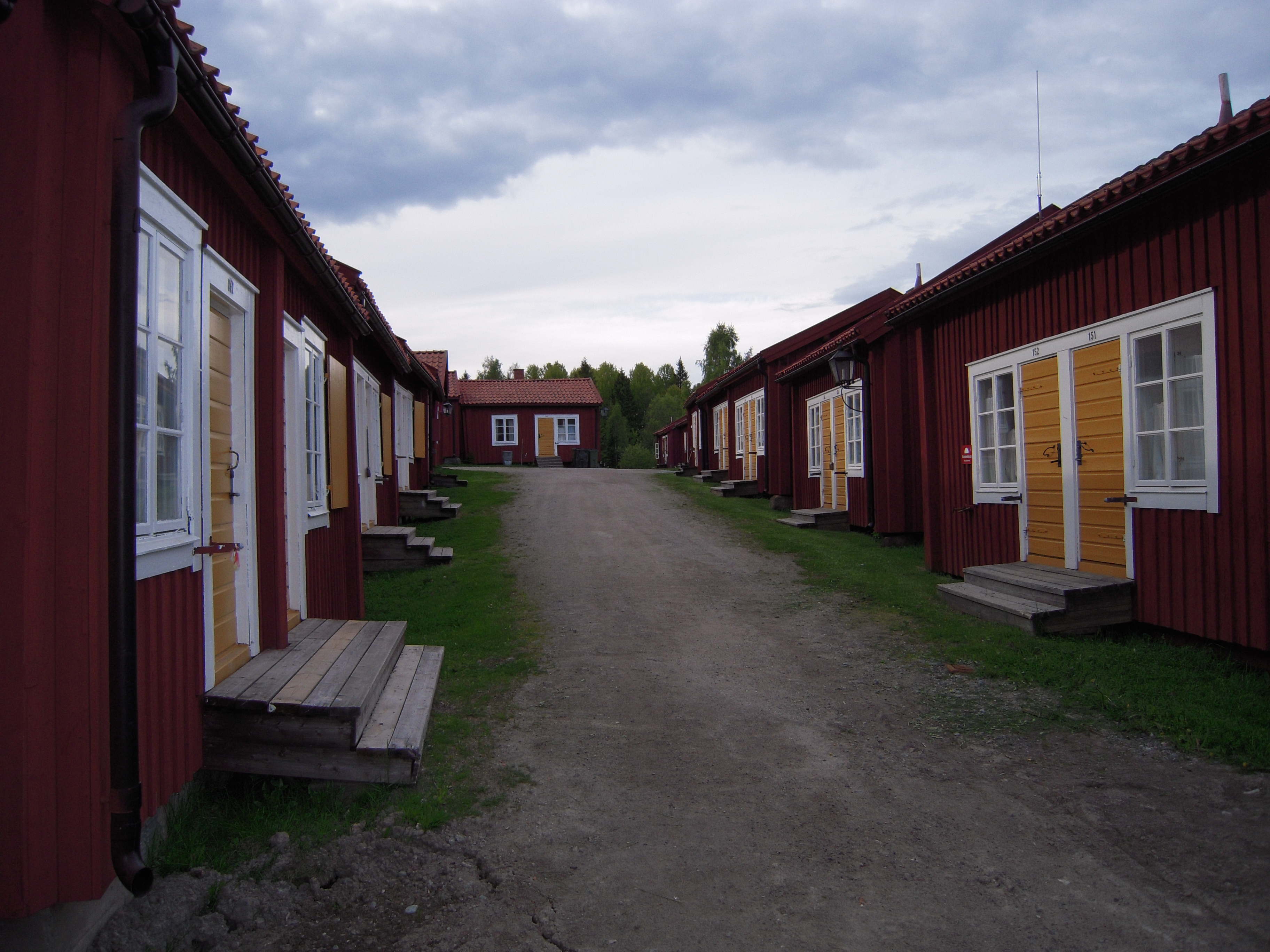 The church town in Lövånger.